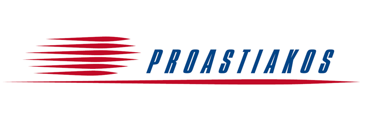 PROASTIAKOS service logo